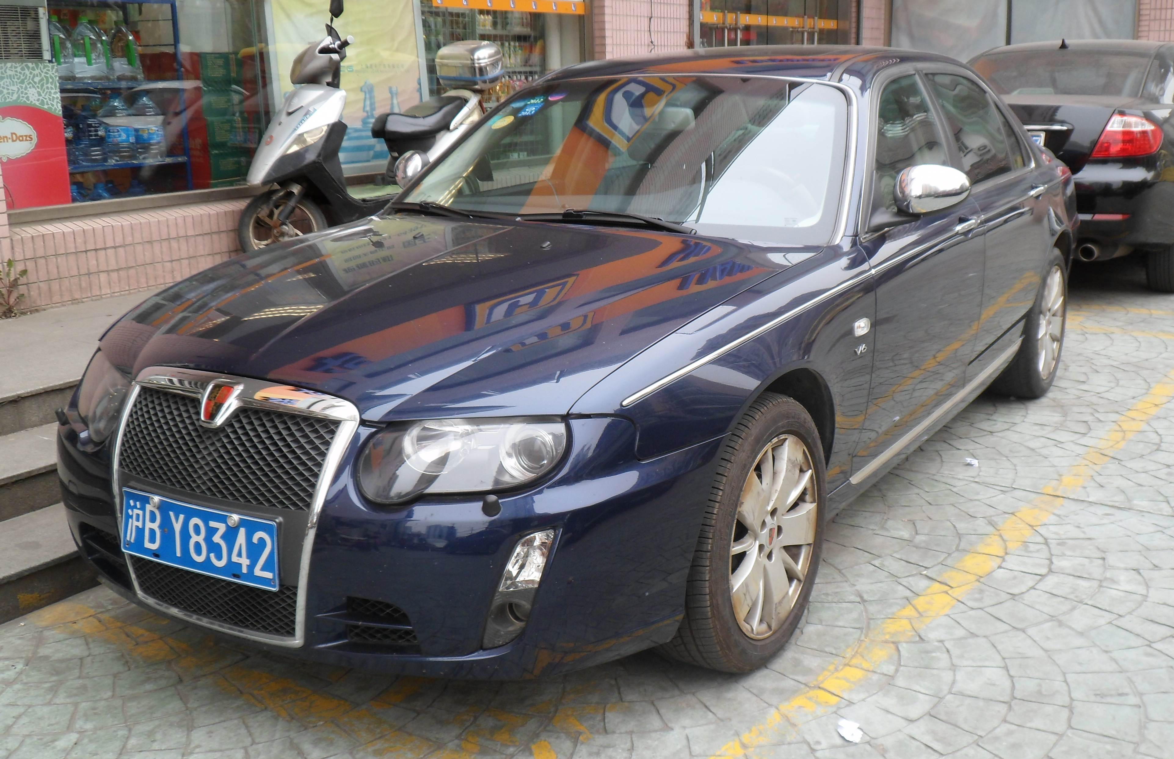 Roewe 750 photographed in Shanghai, China.